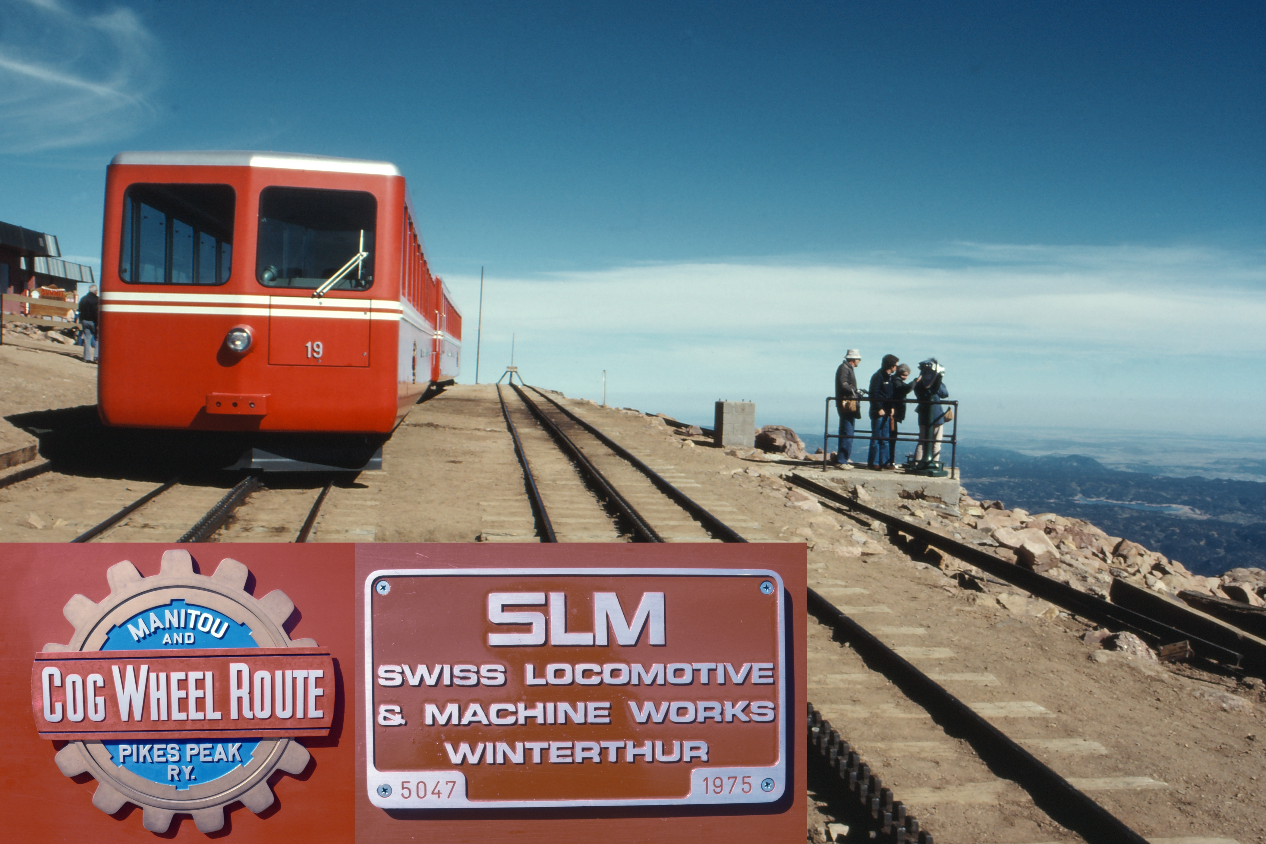 Gear Railway To Pikes Peak Colorado Final Station 4300m SLM Train made in Switzerland